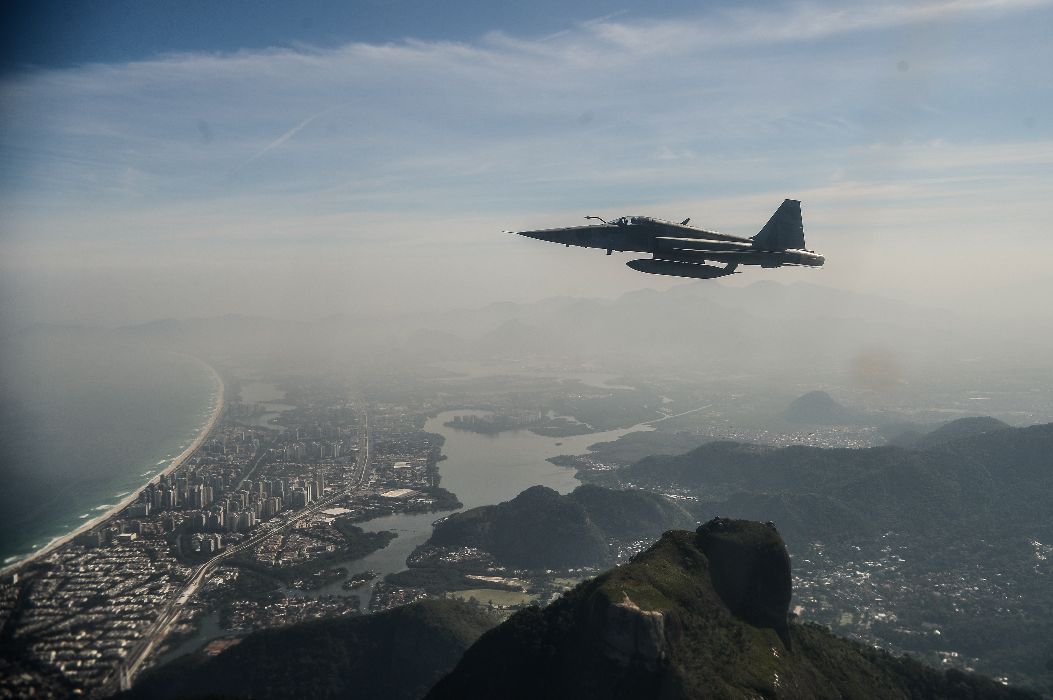 Rio de Janeiro - A Força Aérea Brasileira (FAB) faz treinamento de interceptação aérea para os Jogos Olímpicos de 2016. (Foto: Tomaz Silva/Agência Brasil)